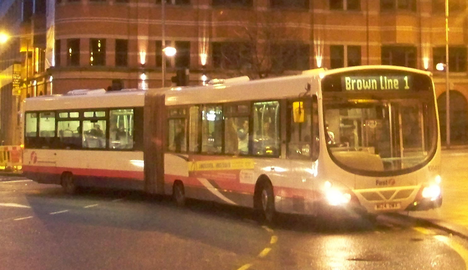 First Leeds bus 10041 (reg. W124 DWX), a 2000 Volvo B7LA articulated single-decker with Wrightbus Eclipse Fusion bodywork, operating the No.1, Brown Line service, pictured arriving at the Infirmary Street bus stands in Leeds.